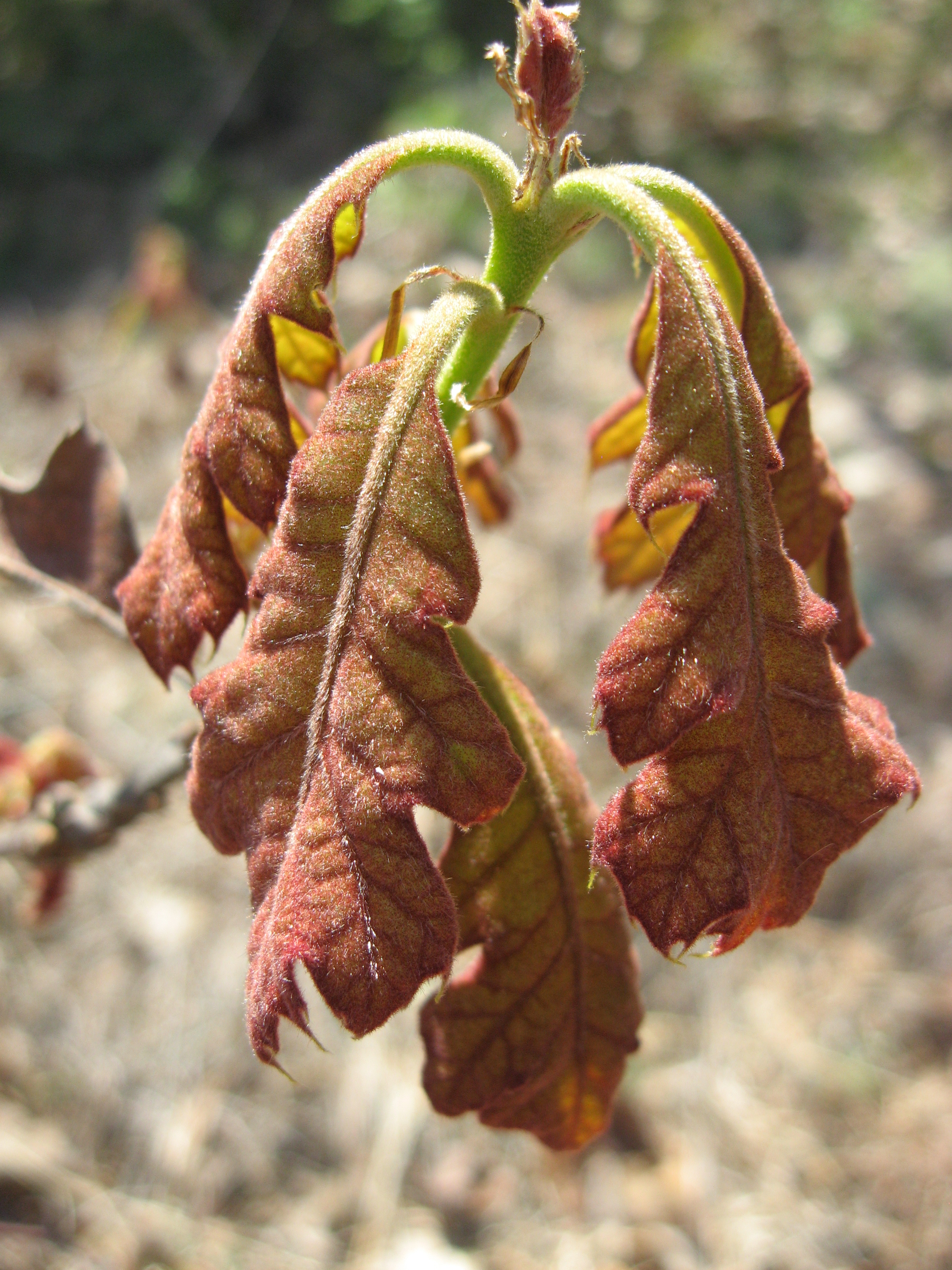 Quercus velutina at Cedars of Lebanon State Park, Wilson County, Tennessee.